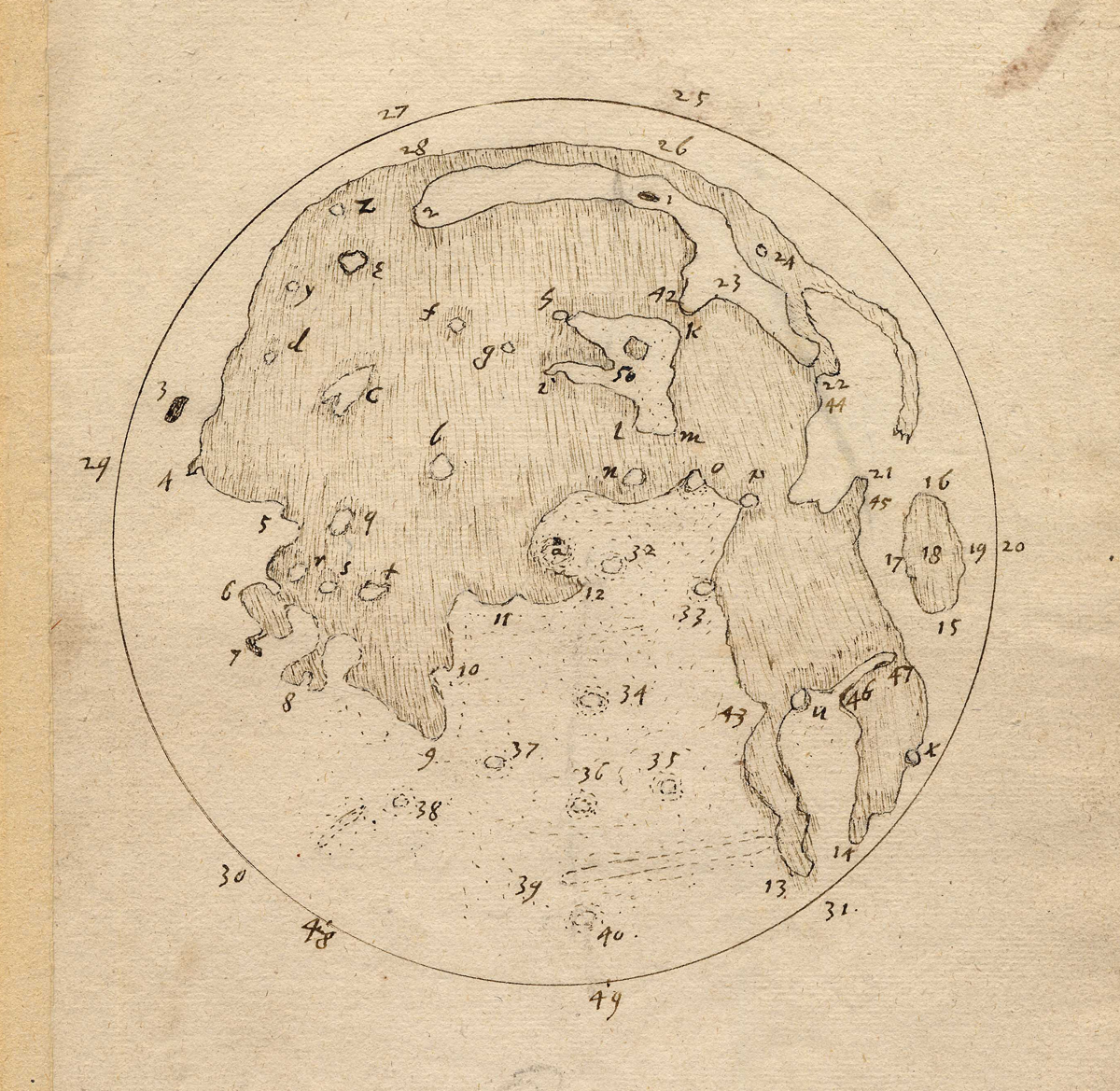 First drawing of moon surface showing craters was make by before the observations made in summer 1609.